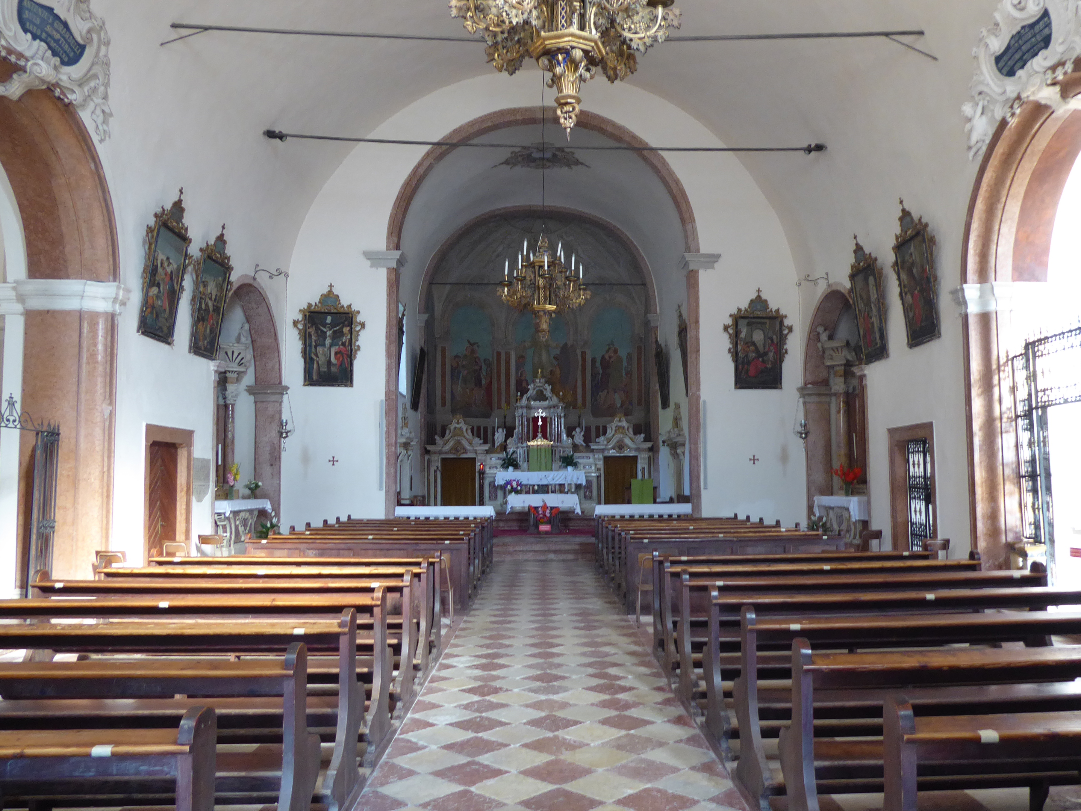 Valle San Felice (Mori, Trentino, Italy), Saints Felix and Fortunatus church - Interior